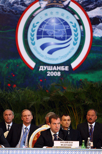 DUSHANBE. At the summit of the heads of state of the Shanghai Cooperation Organisation member countries.